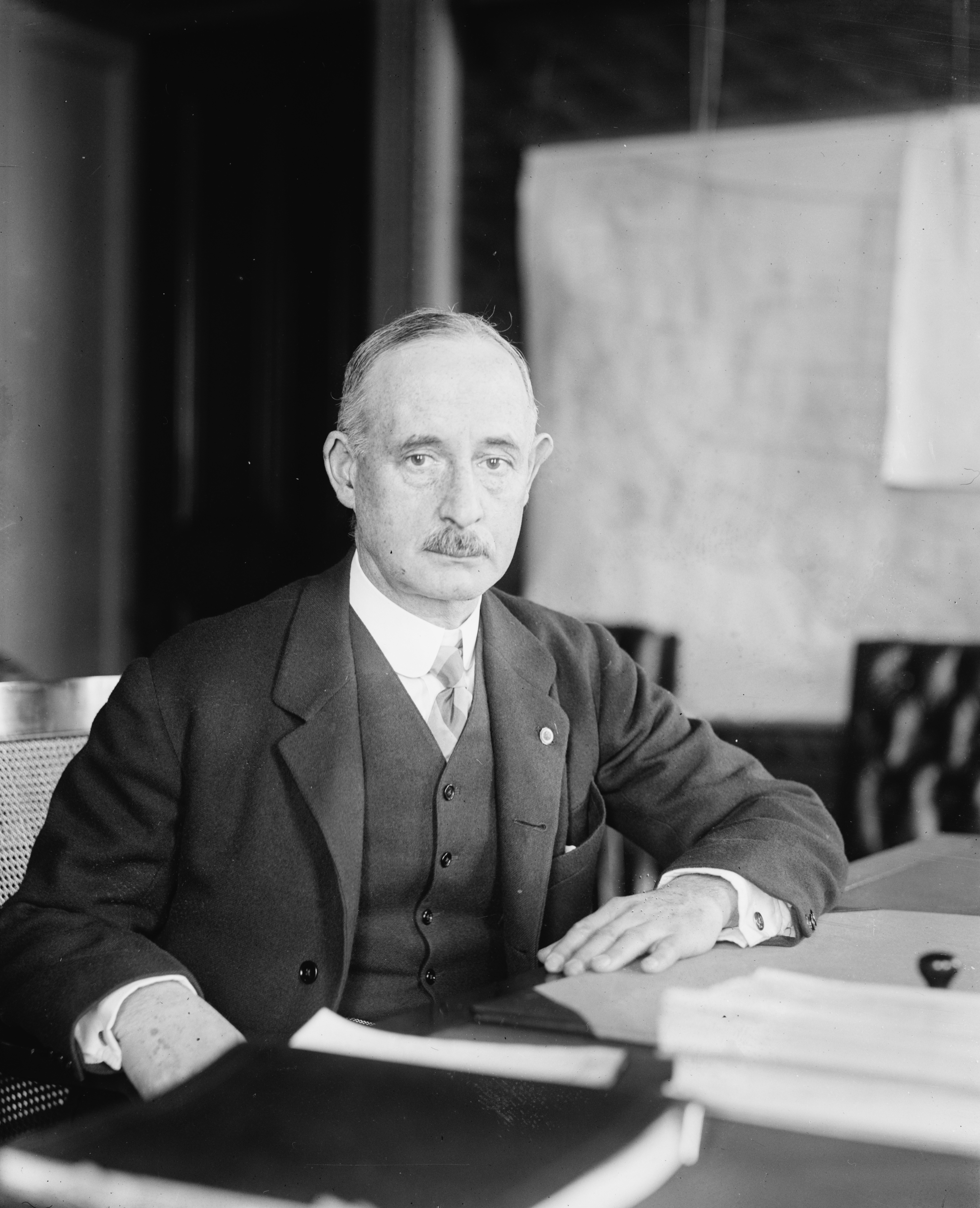 J. Mayhew Wainwright, 3/29/21